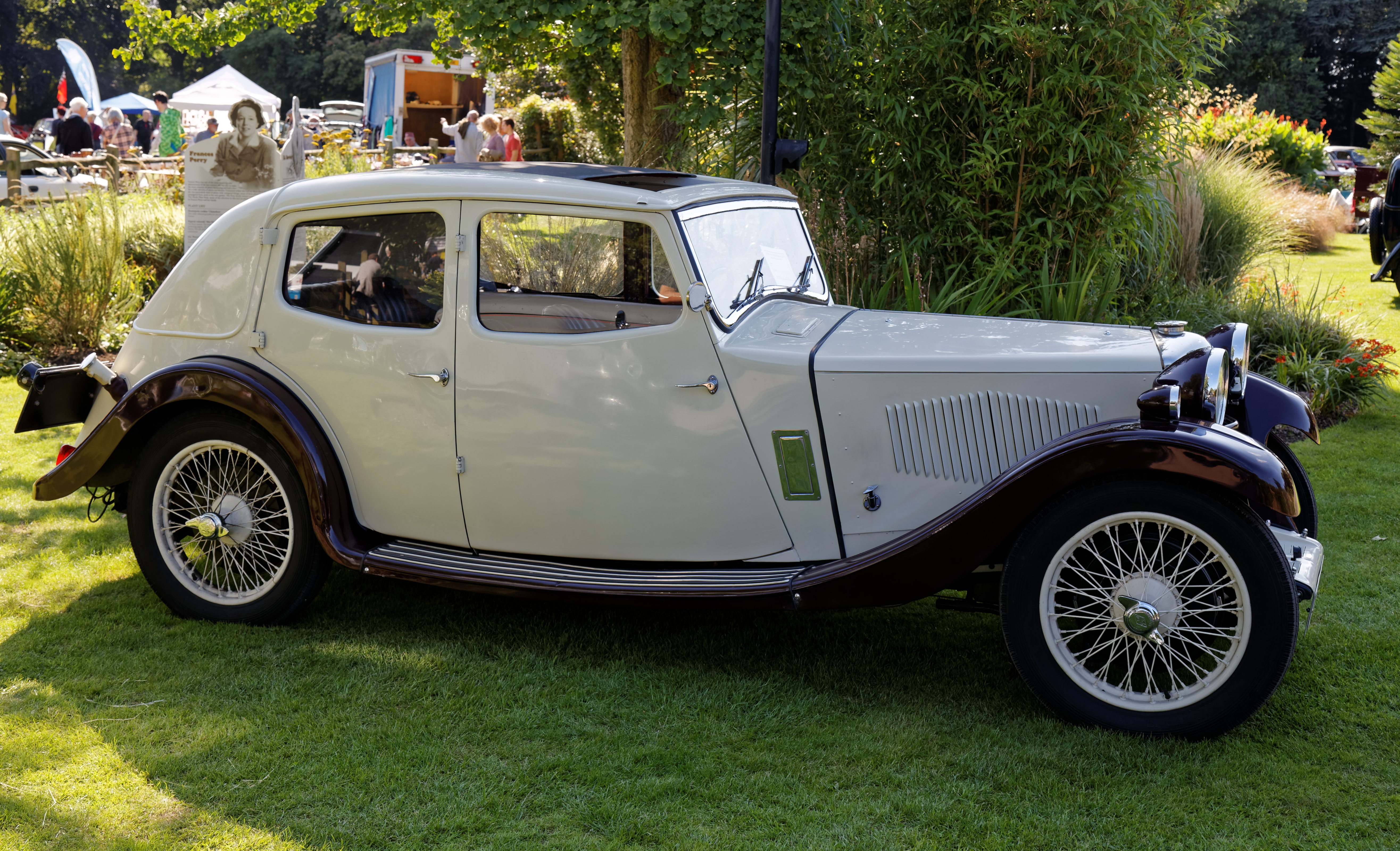 1934 Riley Kestrel 1100 saloon at Capel Manor, Bulls Cross, Enfield, London, England.Software: RAW file lens-corrected, optimized and converted to JPEG with DxO OpticsPro 10 Elite, and likely further optimized and/or cropped and/or spun with Adobe Photoshop CS2.